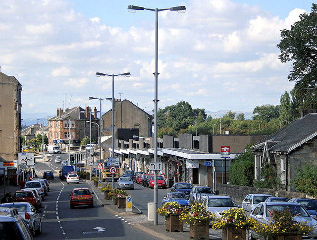 Busby Road, Clarkston. Dual Carriageway through Clarkston Toll.